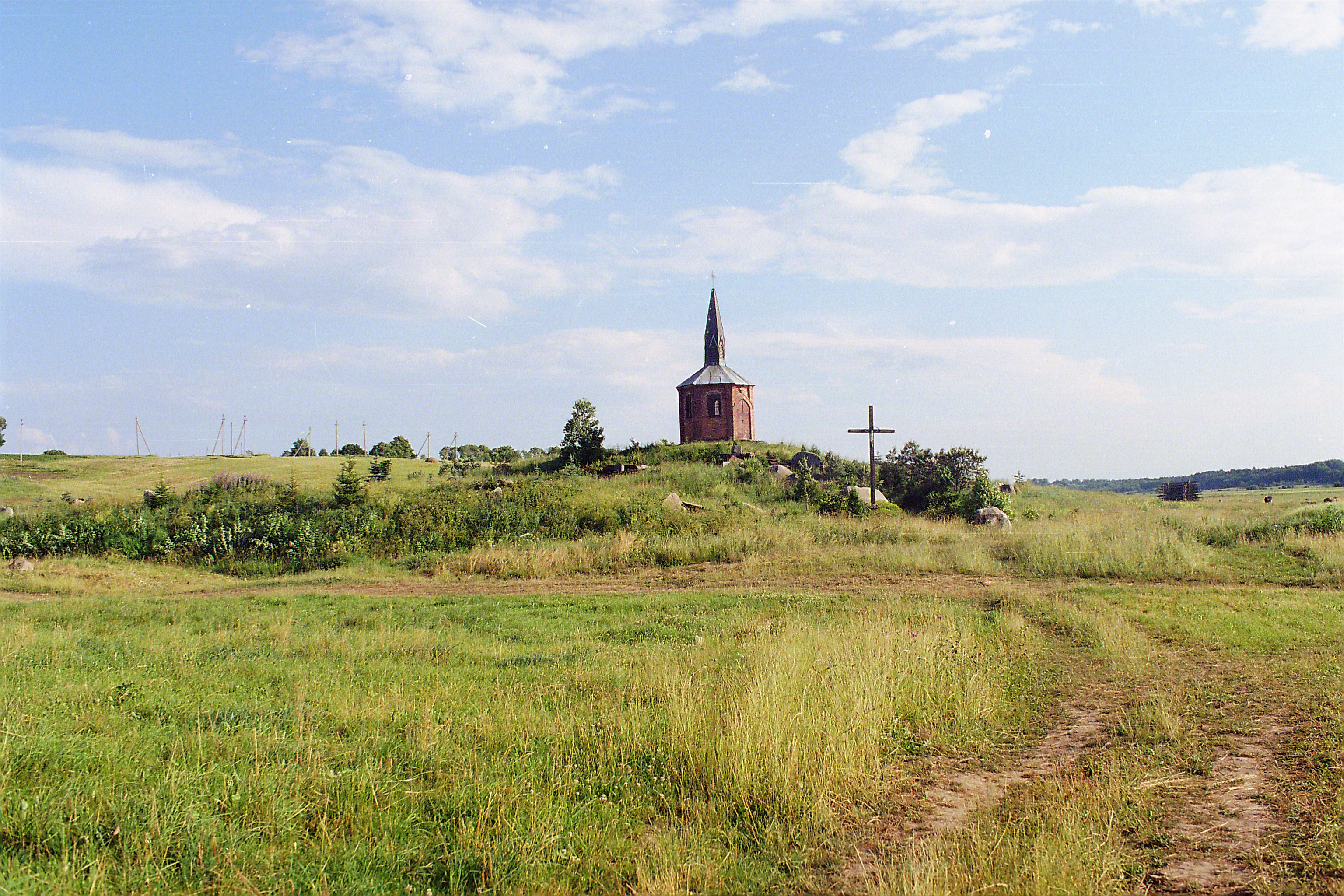 Žvainiai, Kretinga district, LithuaniaLietuvių: Gaidžio kalnas, Žvainių k., Kretingos rajonas, Lietuva